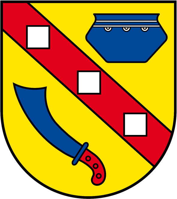 Coat of arms of Rödelhausen